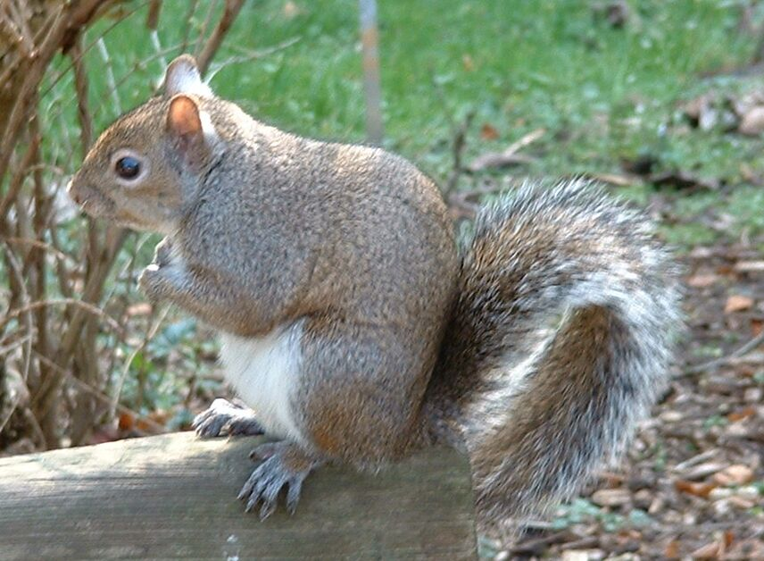 Eastern Gray Squirrel, Sciurus carolinensis. Cropped from a photograph taken on 17th January 2004 by Stephen Lea in Golden Gate Park, San Francisco.